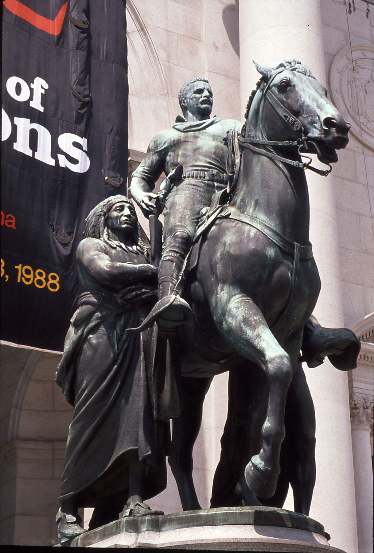 photo by Einar Einarsson Kvaran for equestrian sculpture Carptrash 21:07, 19 March 2006 (UTC)